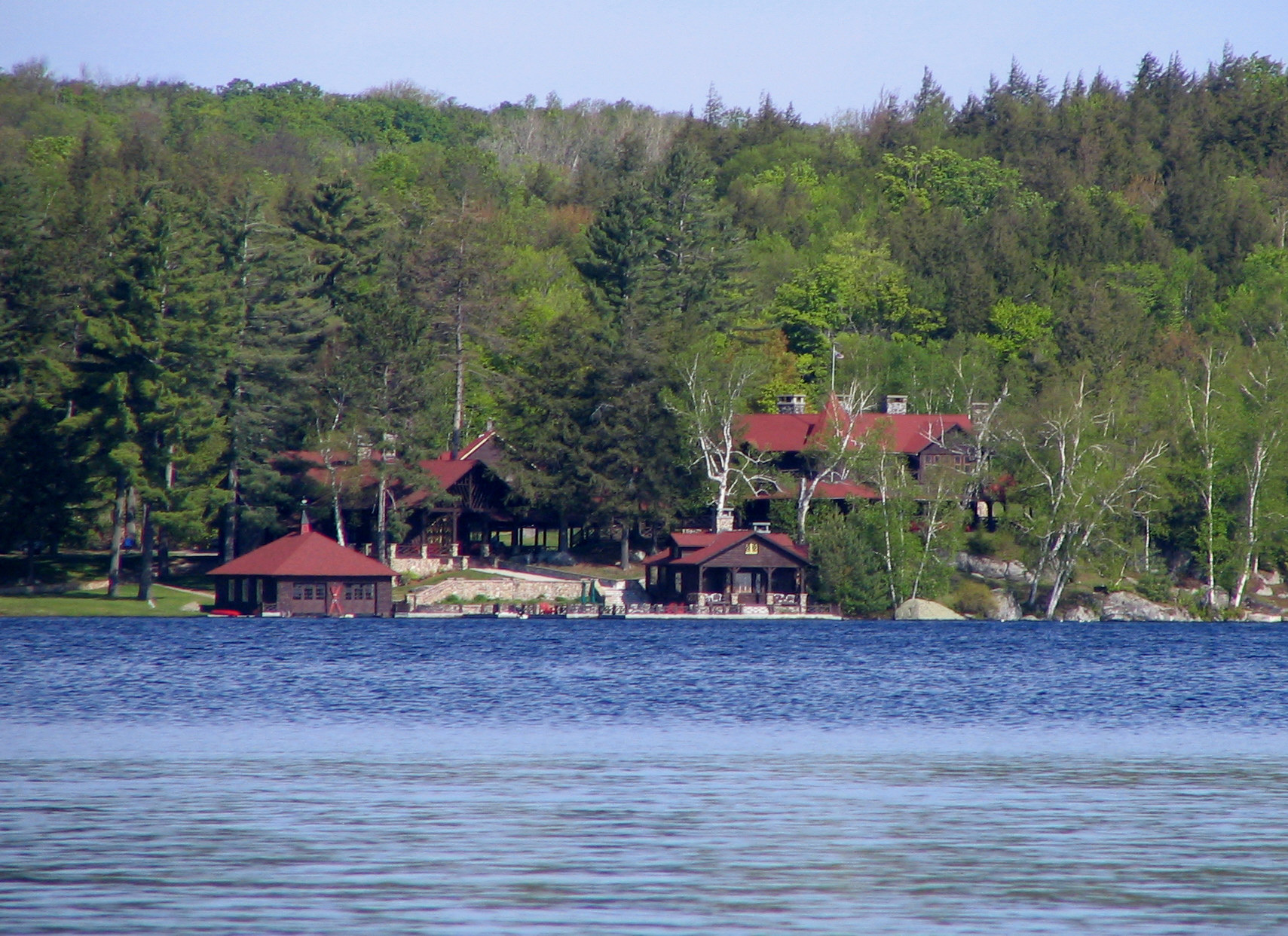 Upper Saranac Lake - Wenonah Lodge, a great camp on the southwest shore built for Julius Bache around the year 1915, is now privately owned by several families.